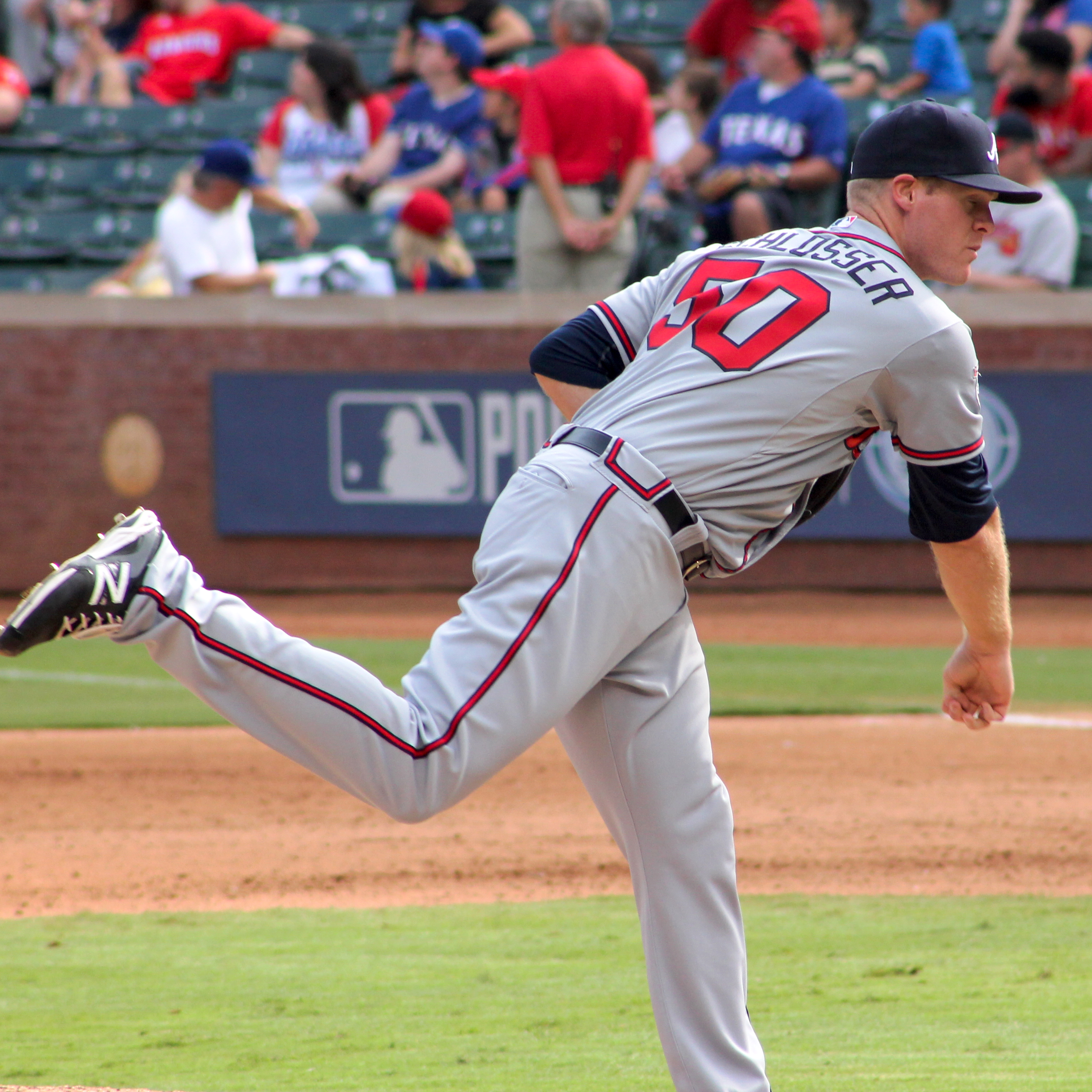 Professional baseball player Gus Schlosser pitches in Arlington during a September 2014 game.